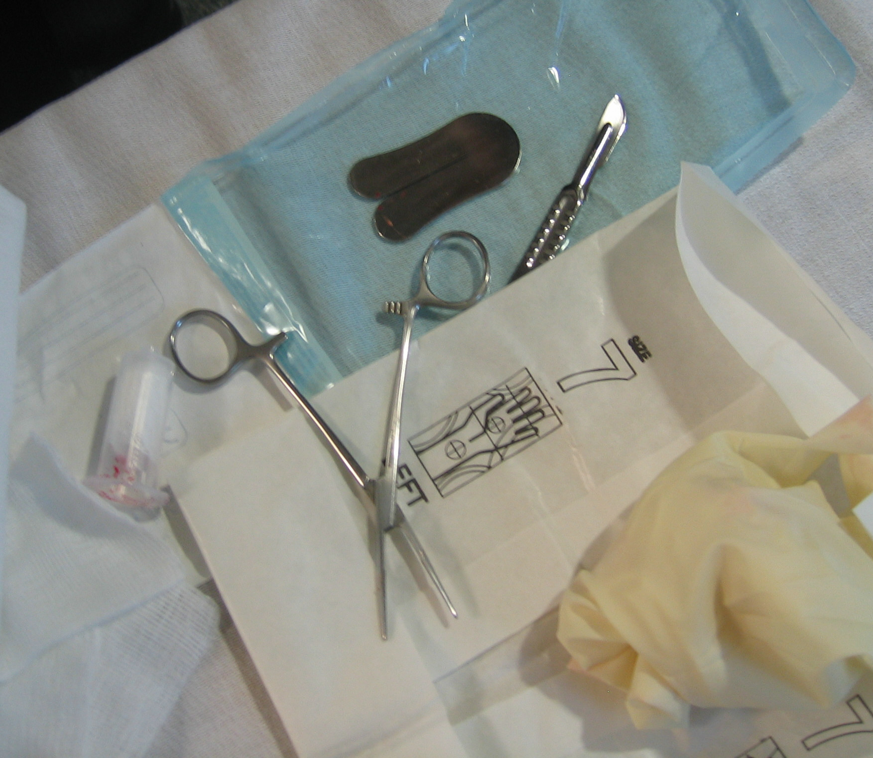 Instruments used for a Jewish circumcision